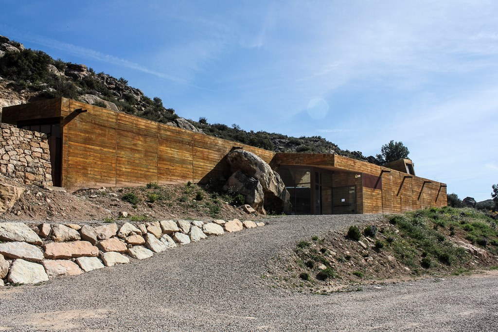 Coves del Cogul: Centre d’interpretació